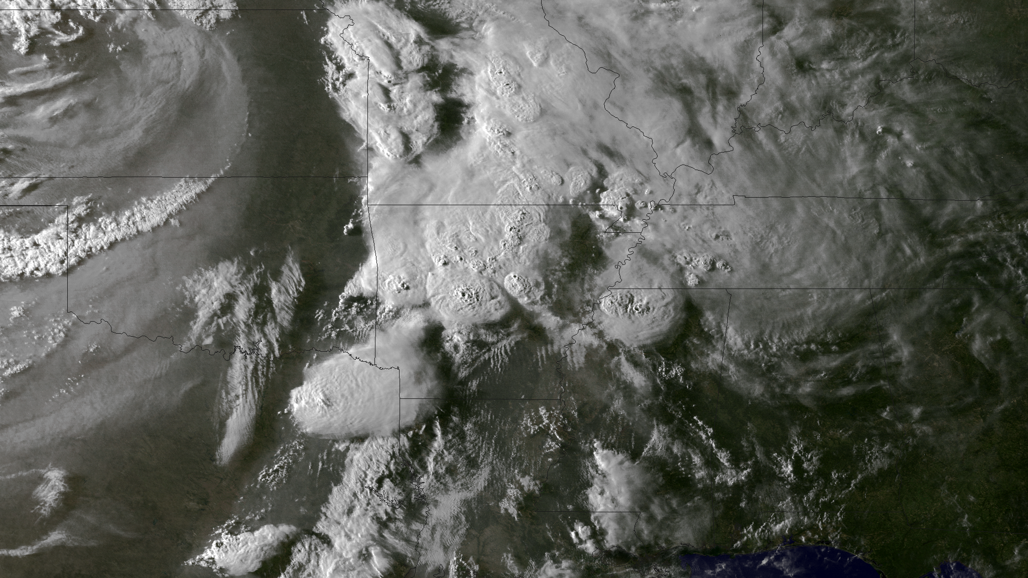 Original text from the NNVL – In chronological order, Nebraska, Iowa, Oklahoma, Kansas, Mississippi, Arkansas and Louisiana reported tornado sightings to the NOAA National Weather Service Storm Prediction Center on April 27, 2014. In Arkansas, the towns of Vilonia and Mayflower and the surrounding areas are reporting widespread devastation. This image was taken at 2345Z on April 27, 2014, around an hour before the tornado reports from Mayflower and Vilonia. The NWS Storm Prediction Center is forecasting a widespread severe weather outbreak Monday afternoon, April 28, 2014, into Monday night across portions of the southern and eastern U.S. The greatest potential - where SPC has outlined a Moderate Risk - is across the lower Mississippi and Tennessee Valleys. Widespread severe storms - including strong tornadoes, damaging winds and very large hail are expected.